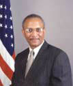 Francis X. Taylor